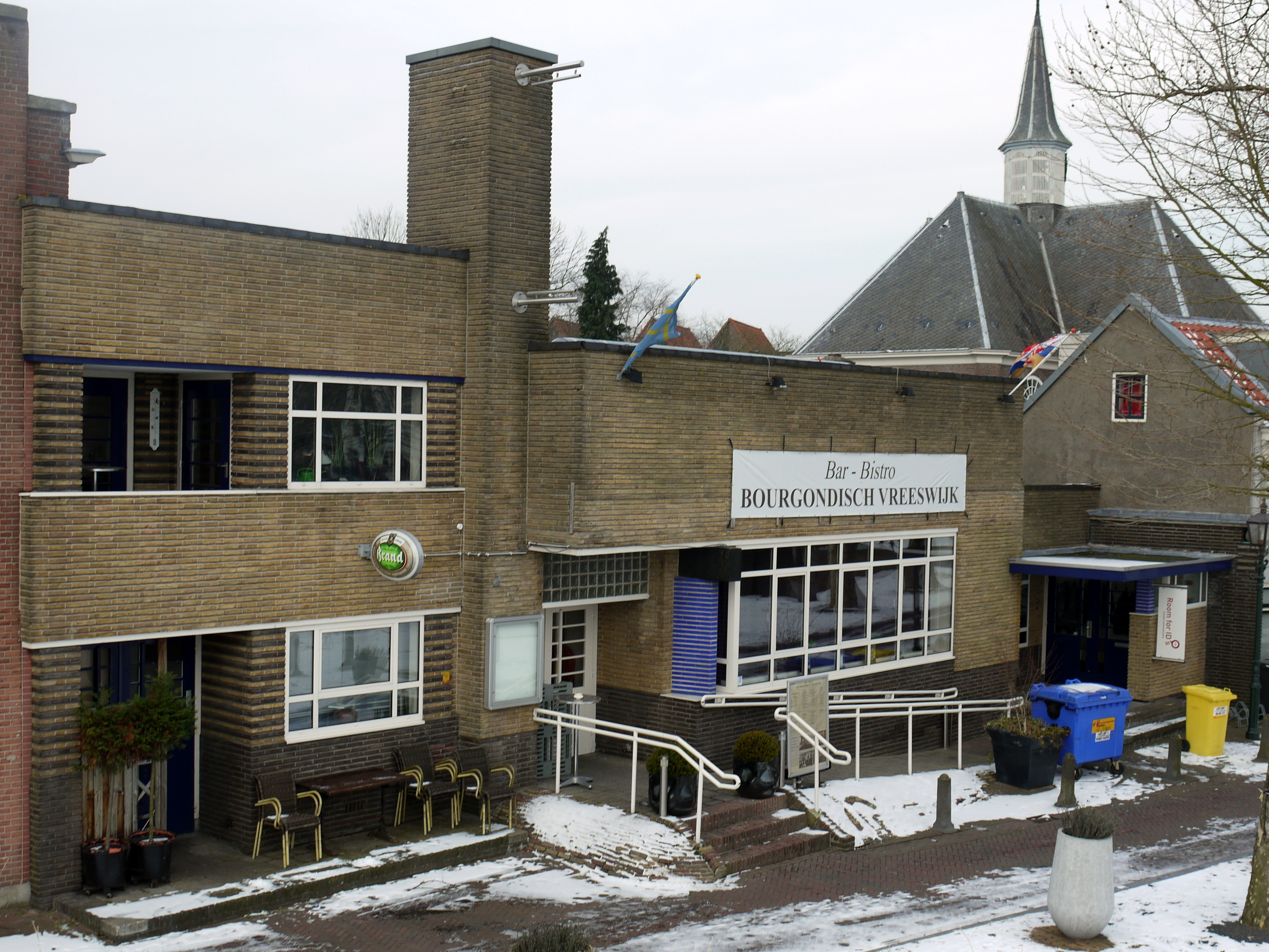 A former parish house with caretaker's house and kindergarten, at Dorpsstraat 58, Nieuwegein (Vreeswijk). Designed by Willemse en Van Overhagen. Built 1932. It is now a restaurant. Its national-monument number is 526696.